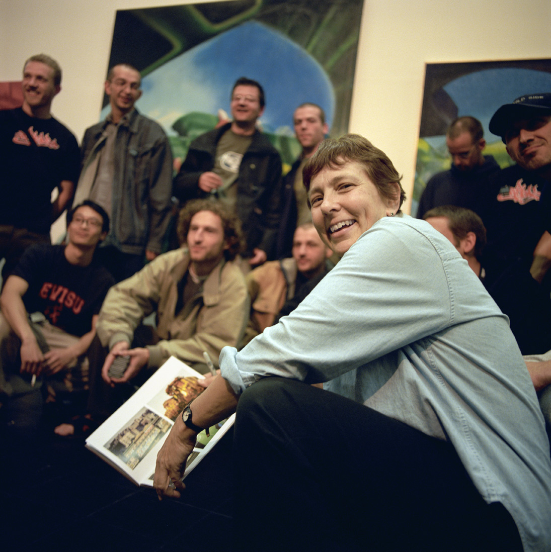 Martha Cooper and other Artists at the Urban Discipline 2001: Graffiti-Art exhibition in Hamburg, Germany, 2001.